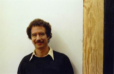 Photograph